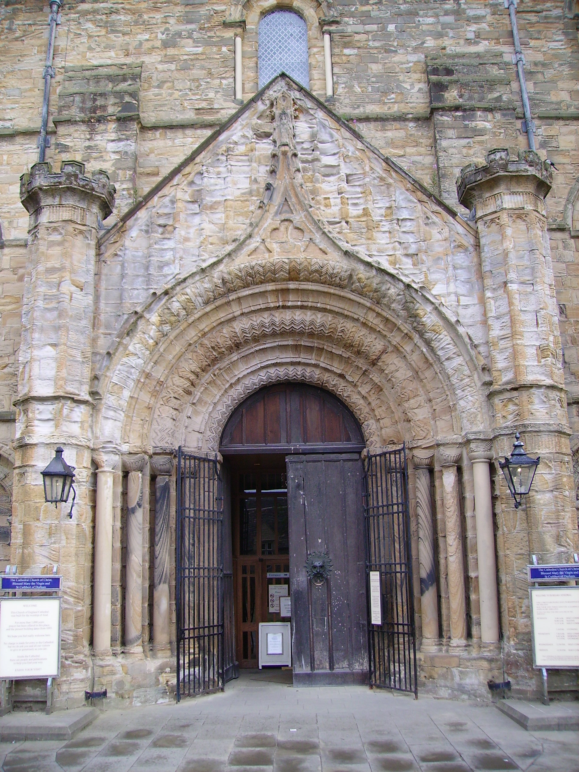 Norman doorway of Durham Cathedral in Durham, County Durham